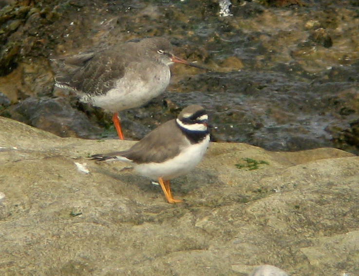 Common Ringed Plover Charadrius hiaticula adult (with Common Redshank Tringa totanus behind); St Mary's Island, Whitley Bay, Northumberland, UK